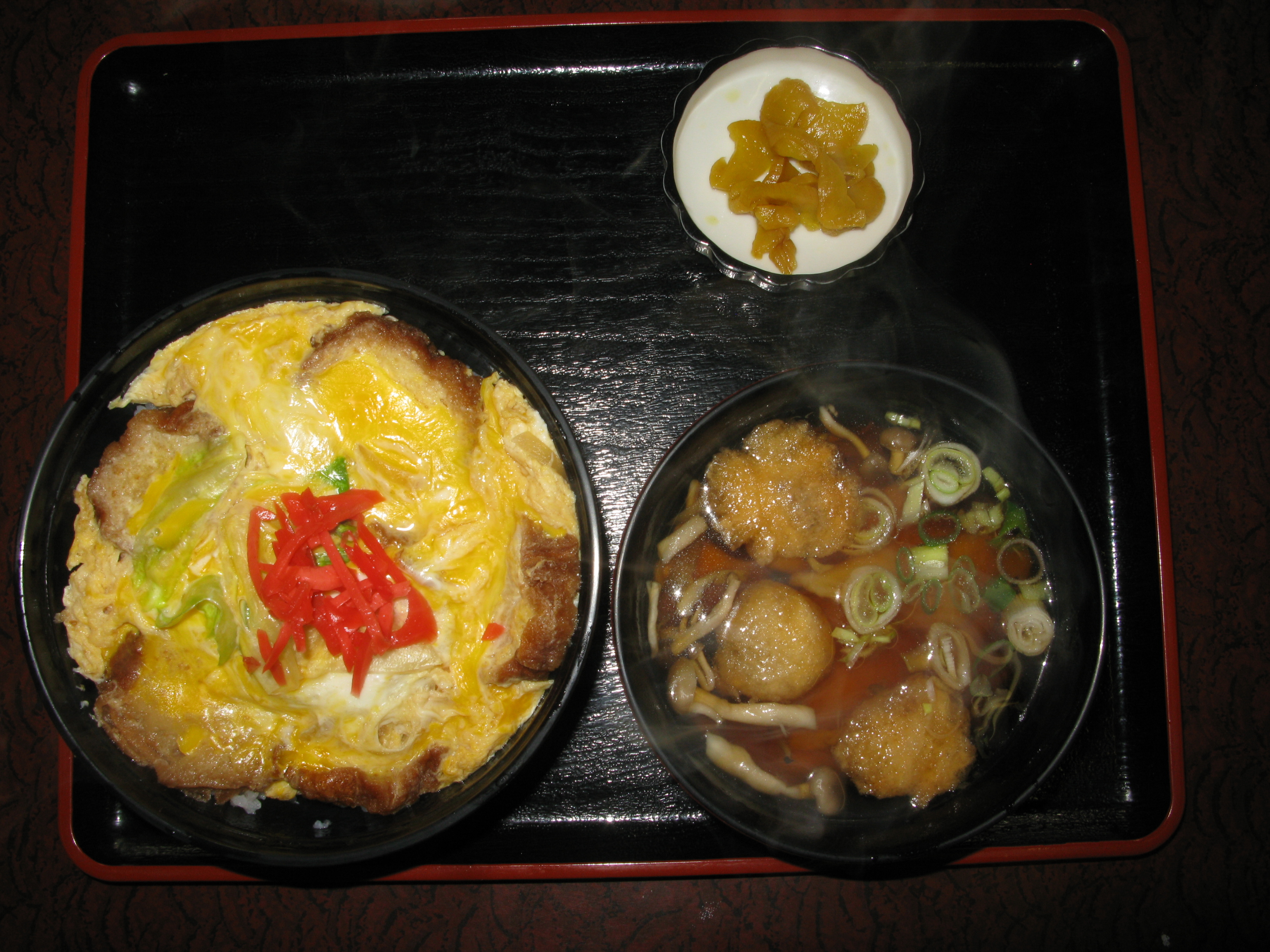 Aburafu-don, Tome City, Miyagi pref., Japan